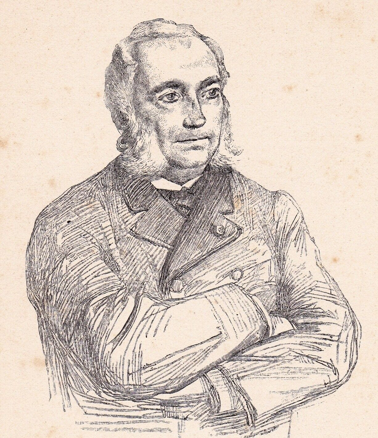 French politician Albert Christophle (1830-1904)